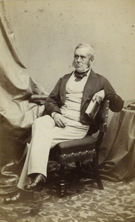 Portrait of John Wickens (1815–1873), English barrister and judge.